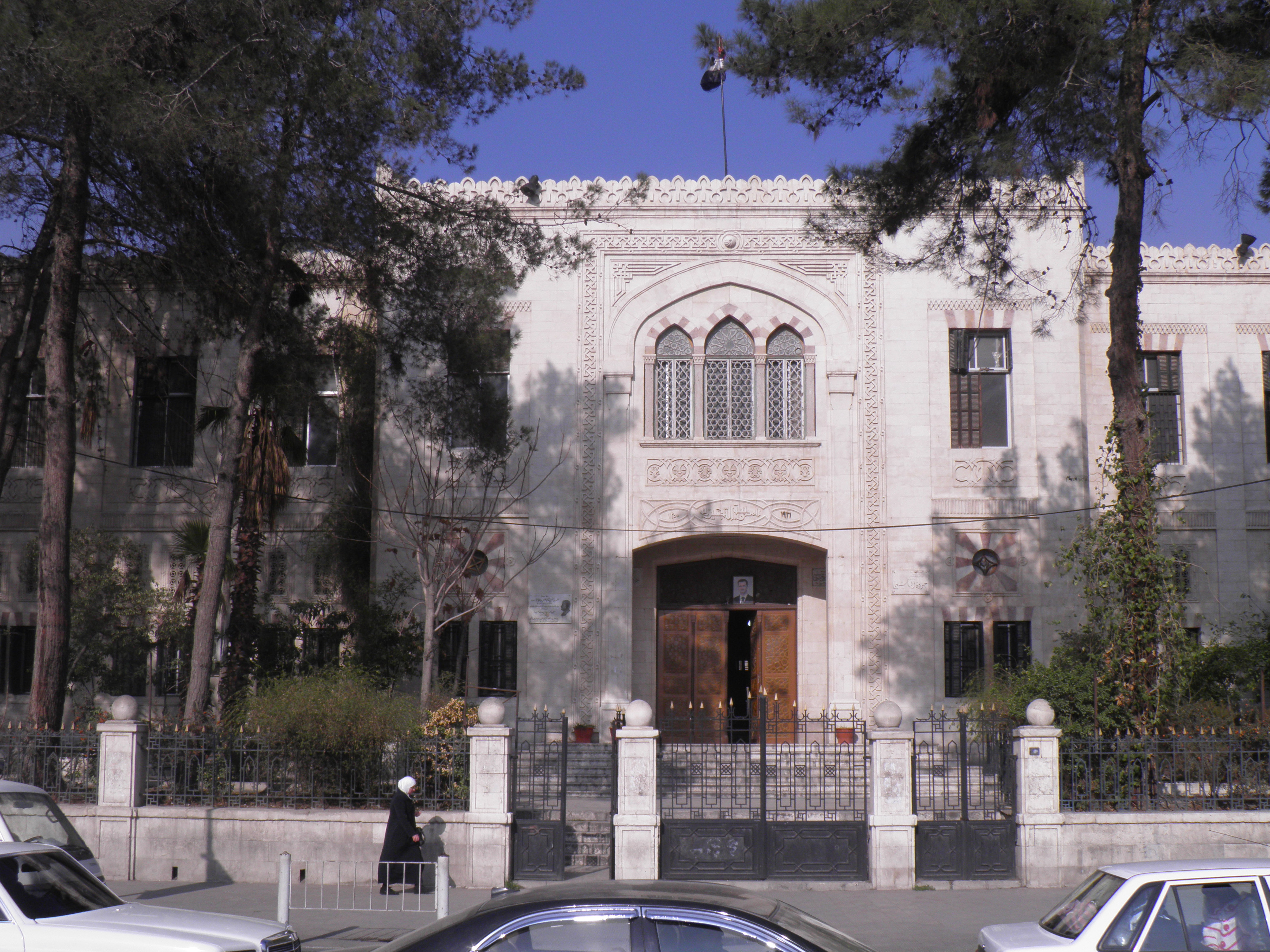 Jawdat al-Hashimi School, Damascus, Syria.